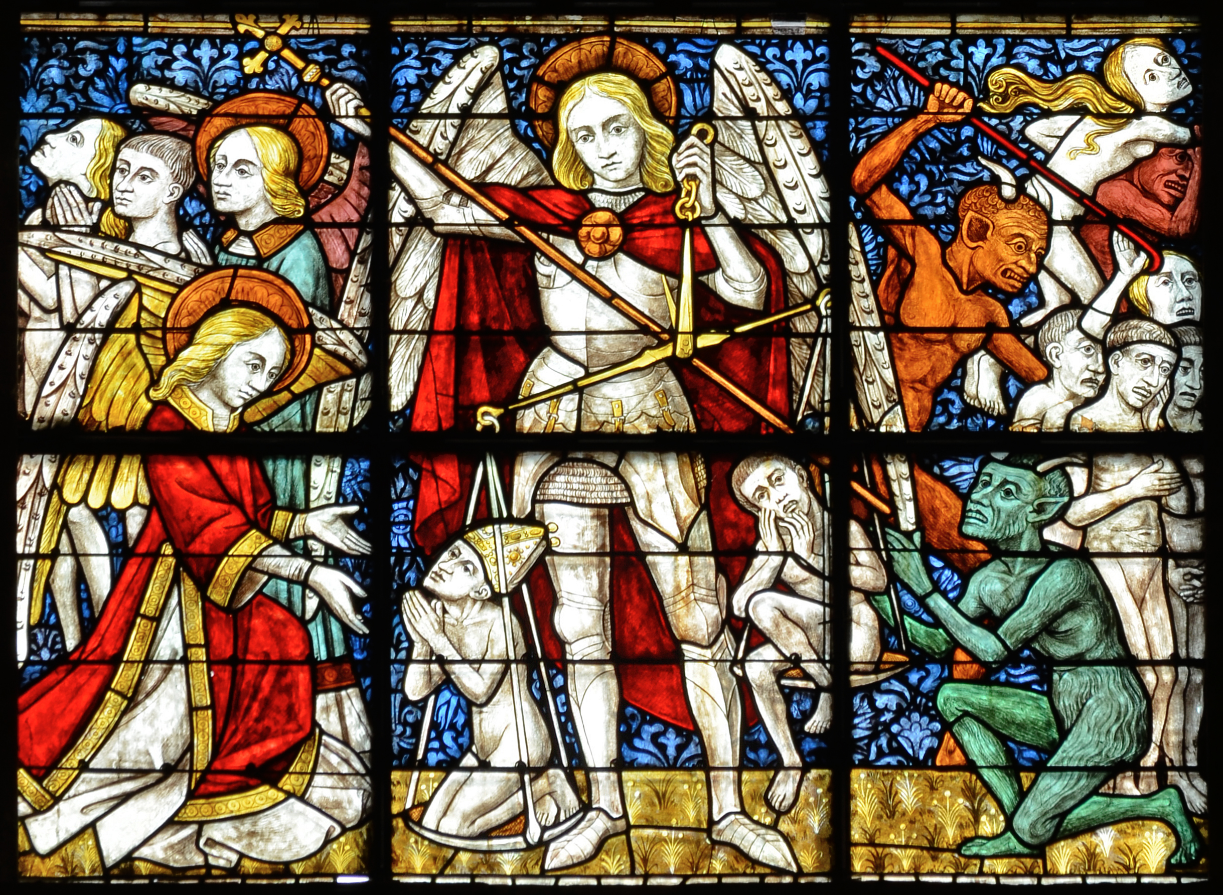 Archangel Michael weighing souls, detail of stained glass windows depicting the Last Judgment, recreated in 1916 by stained glass artists of Tournel in Paris under the direction of the architect Gabriel Malençon (1849–1930) as the original panel is lost since 1876 - Coutances Cathedral - Coutances, Manche, France.